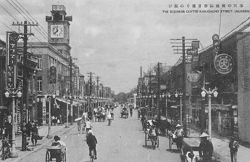 Kasuga-Dori in Fengtian(Shenyang)